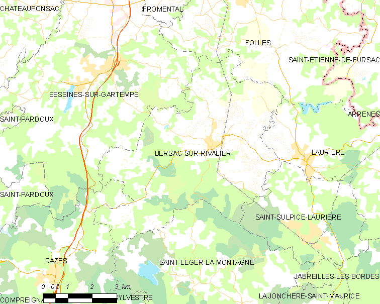 Map of French municipality Bersac-sur-Rivalier